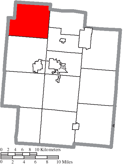 Map of the municipal and township boundaries of Jackson County, Ohio, United States, as of the 2000 census, with the location of Jackson Township highlighted. Township borders are shown only in unincorporated areas in order to differentiate incorporated and unincorporated areas more clearly.